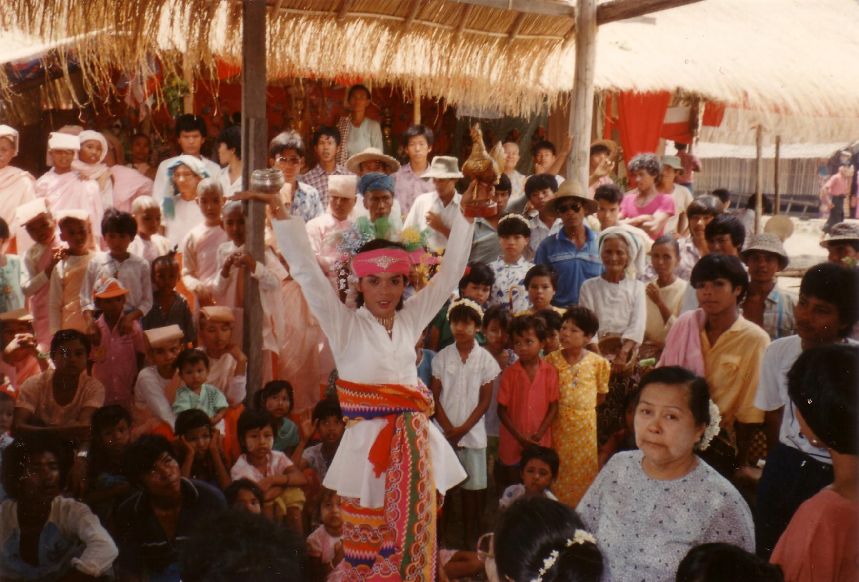 A nat kadaw (spirit medium) at a nat pwè (spirit festival) at Mingun, Myanmar